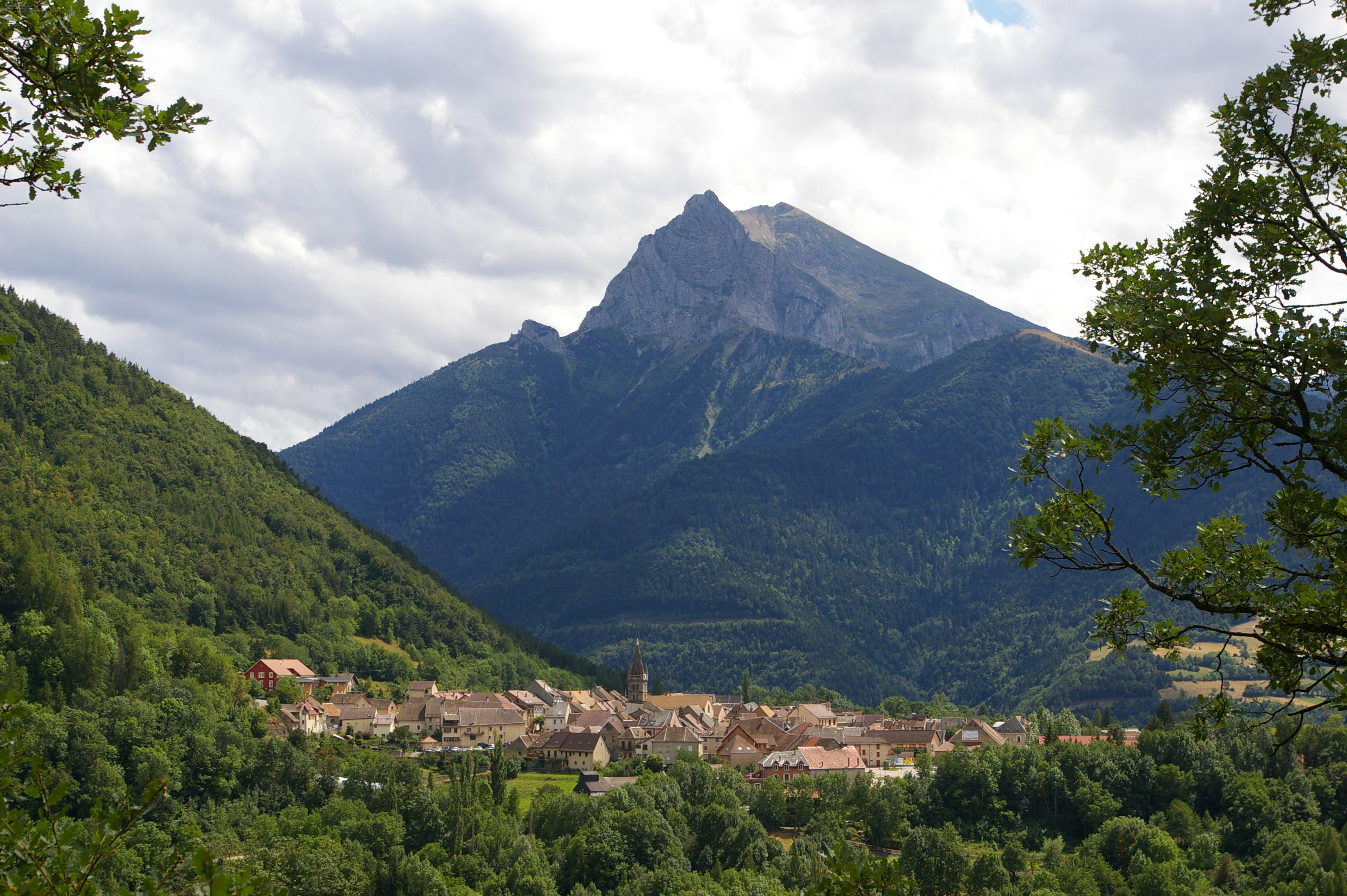 View of Corps, dept. Isère, France. Geodata is approximate as the tool does not show hiking trails.